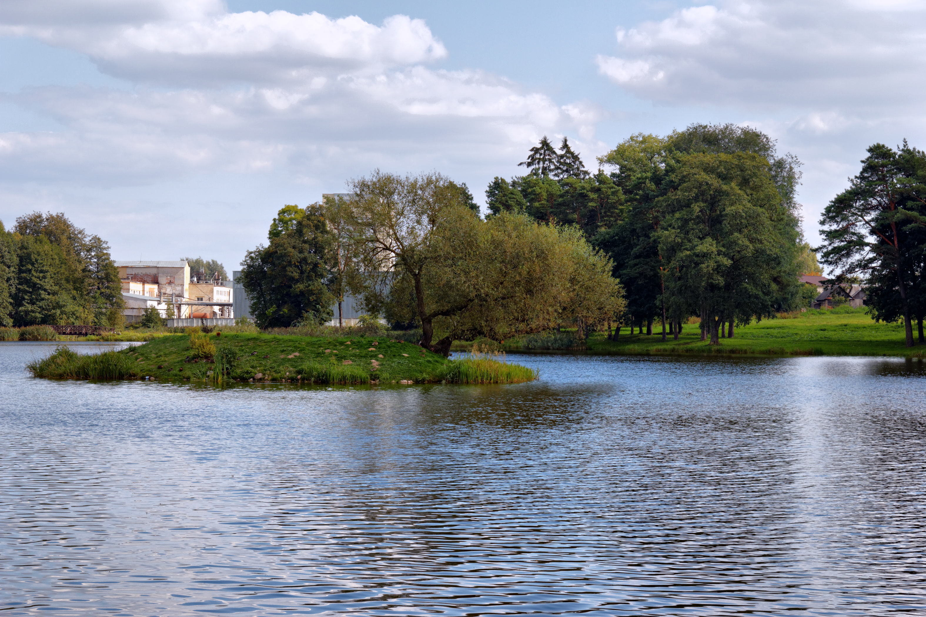 Belarus. Mir. Mir Castle Complex, pond